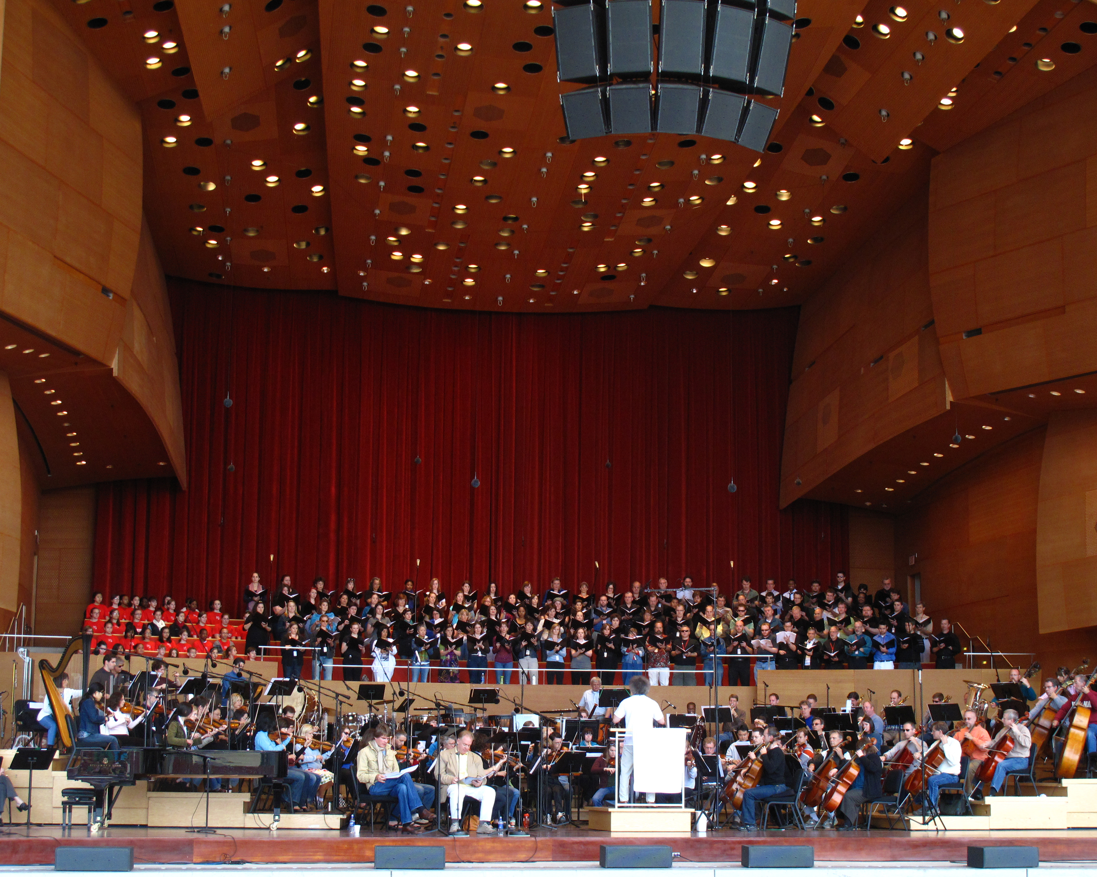 Rehearsal at the Jay Pritzker Pavilion in Chicago's Millenium Park